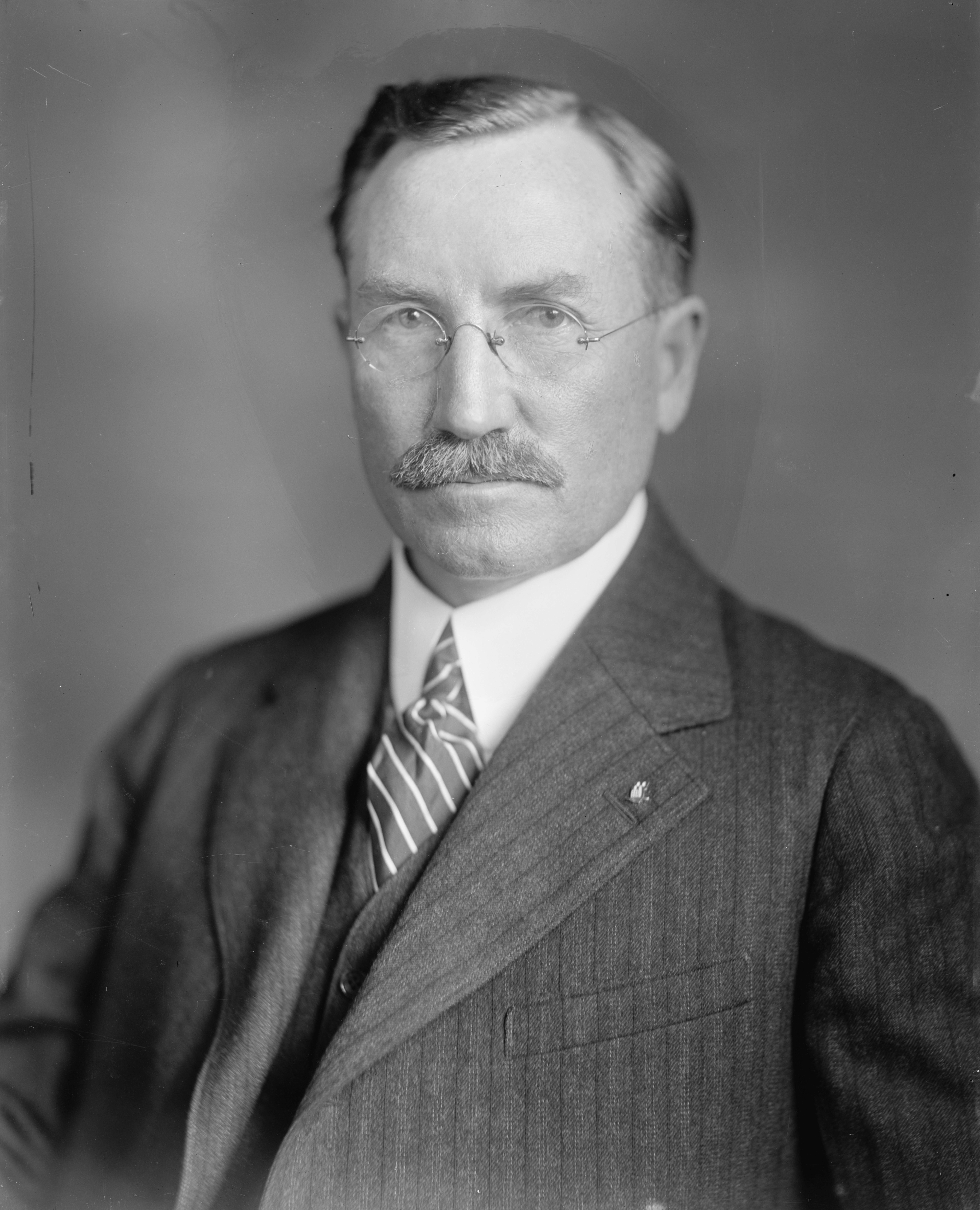 Title: RHODES, MARION E. HONORABLE Abstract/medium: 1 negative : glass ; 8 x 10 in. or smaller